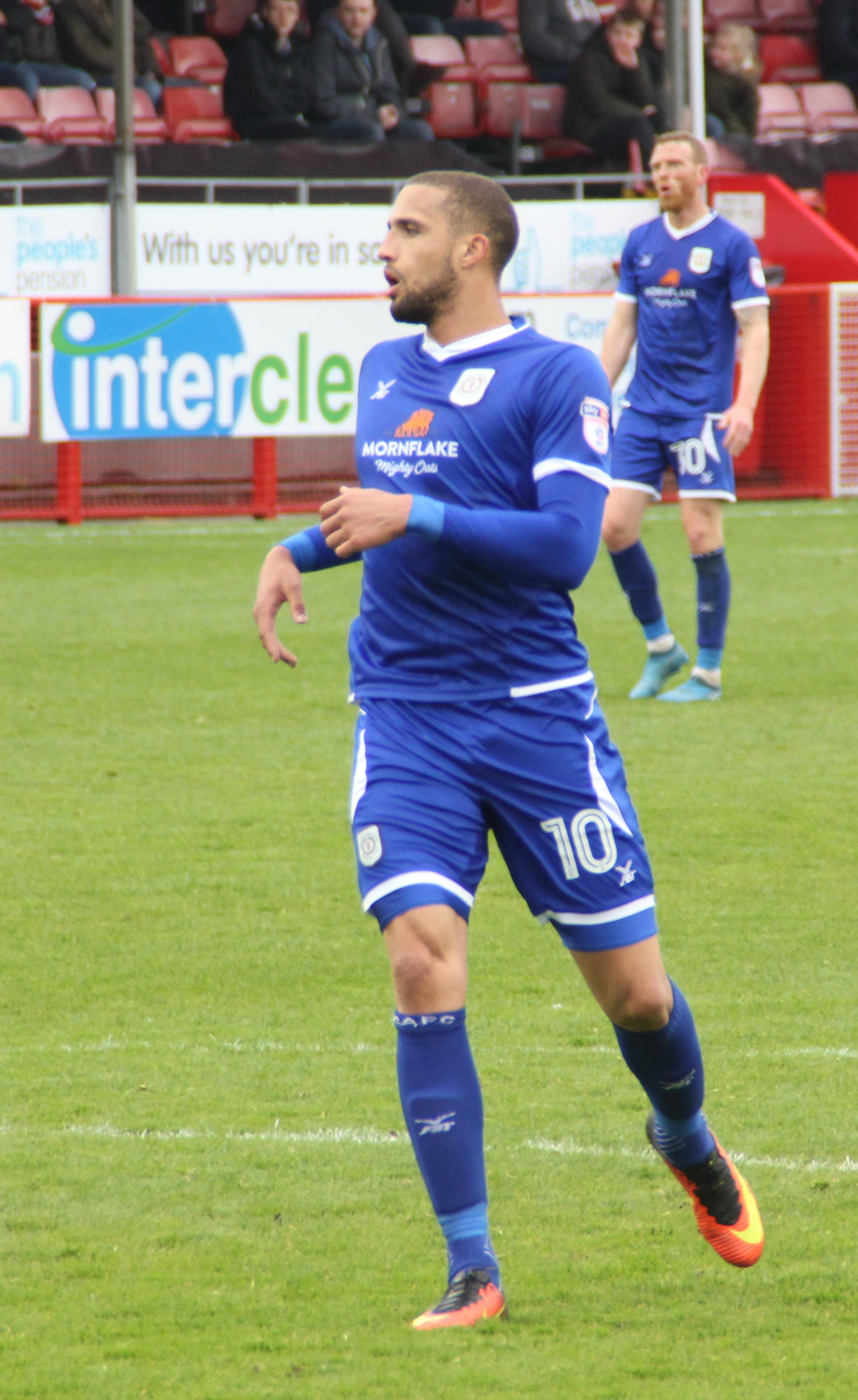 Jordan Bowery in action for Crewe at Crawley Town on 28 April 2018.